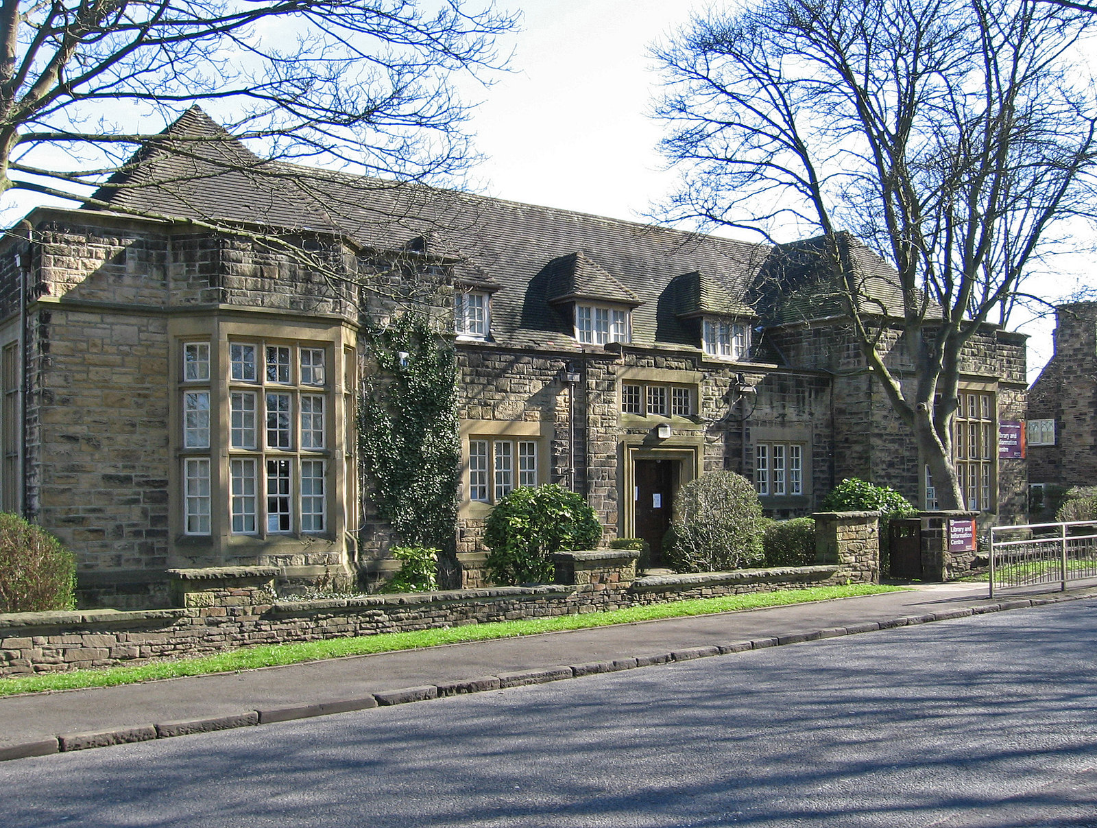 Staveley - Library on Hall Lane